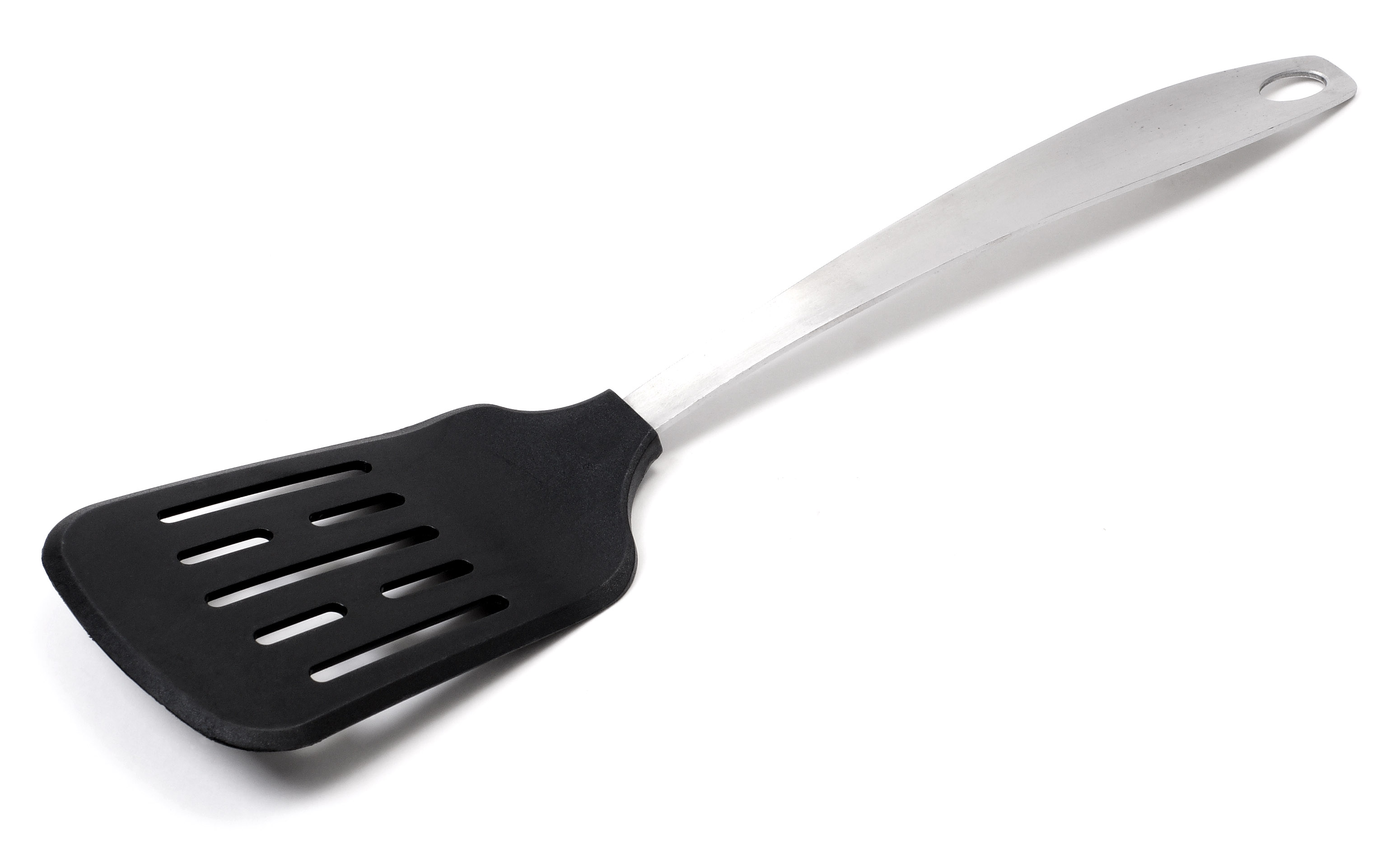 A regular kitchen spatula, with a non-metal flipper to be used in non-stick pans.